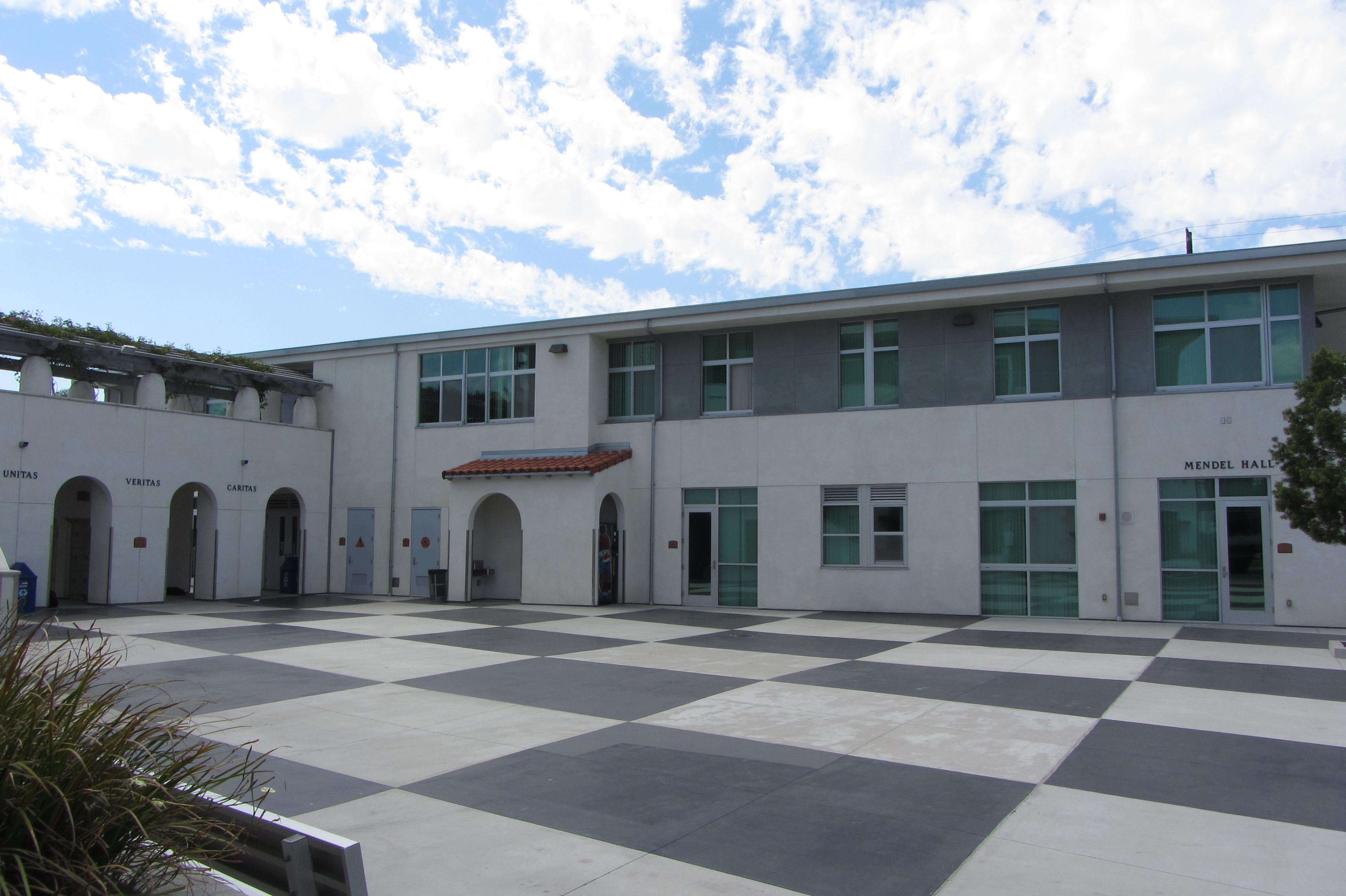 New buildings and Patio at St.Augustine High School